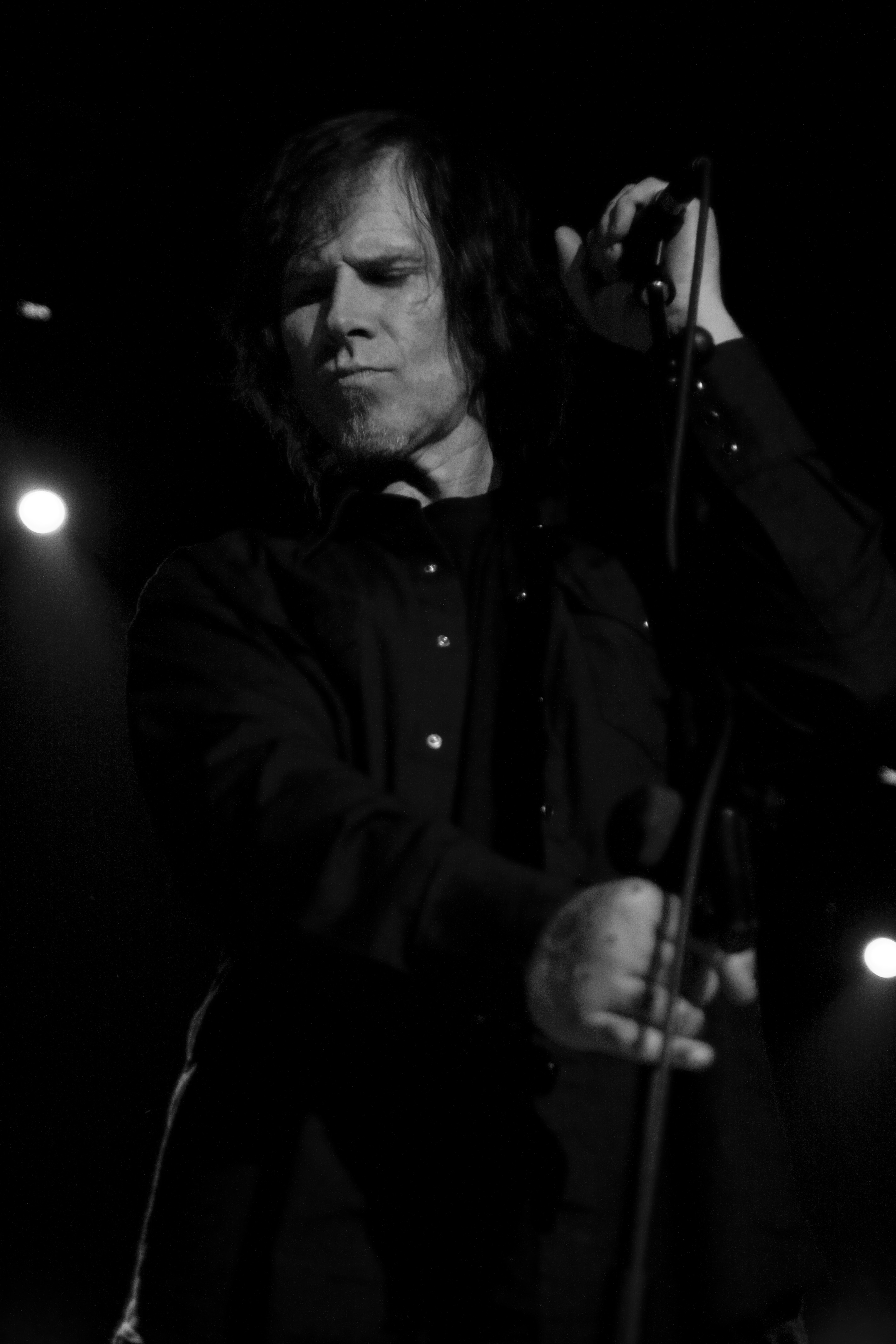 Mark Lanegan, an American rock musician.